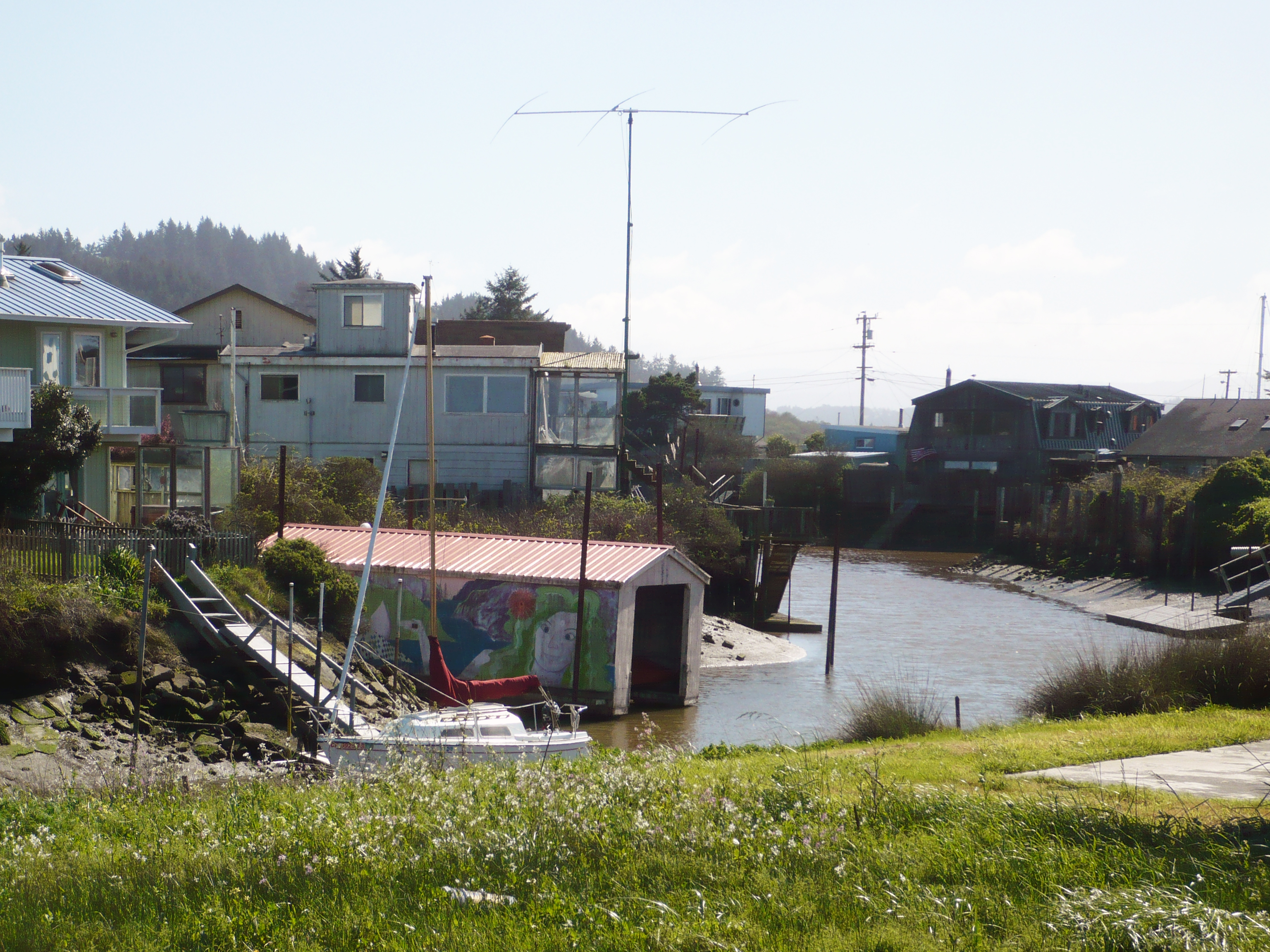 King Salmon is a small fishing village in Humboldt County, California, United States is also the site of the Humboldt Bay Power Plant. The town has homes situated adjacent to canals and is at Buhne Point directly across from the entrance to Humboldt Bay, 1 mile (1.6 km) north of Fields Landing, at an elevation of 3 feet (0.91 m).